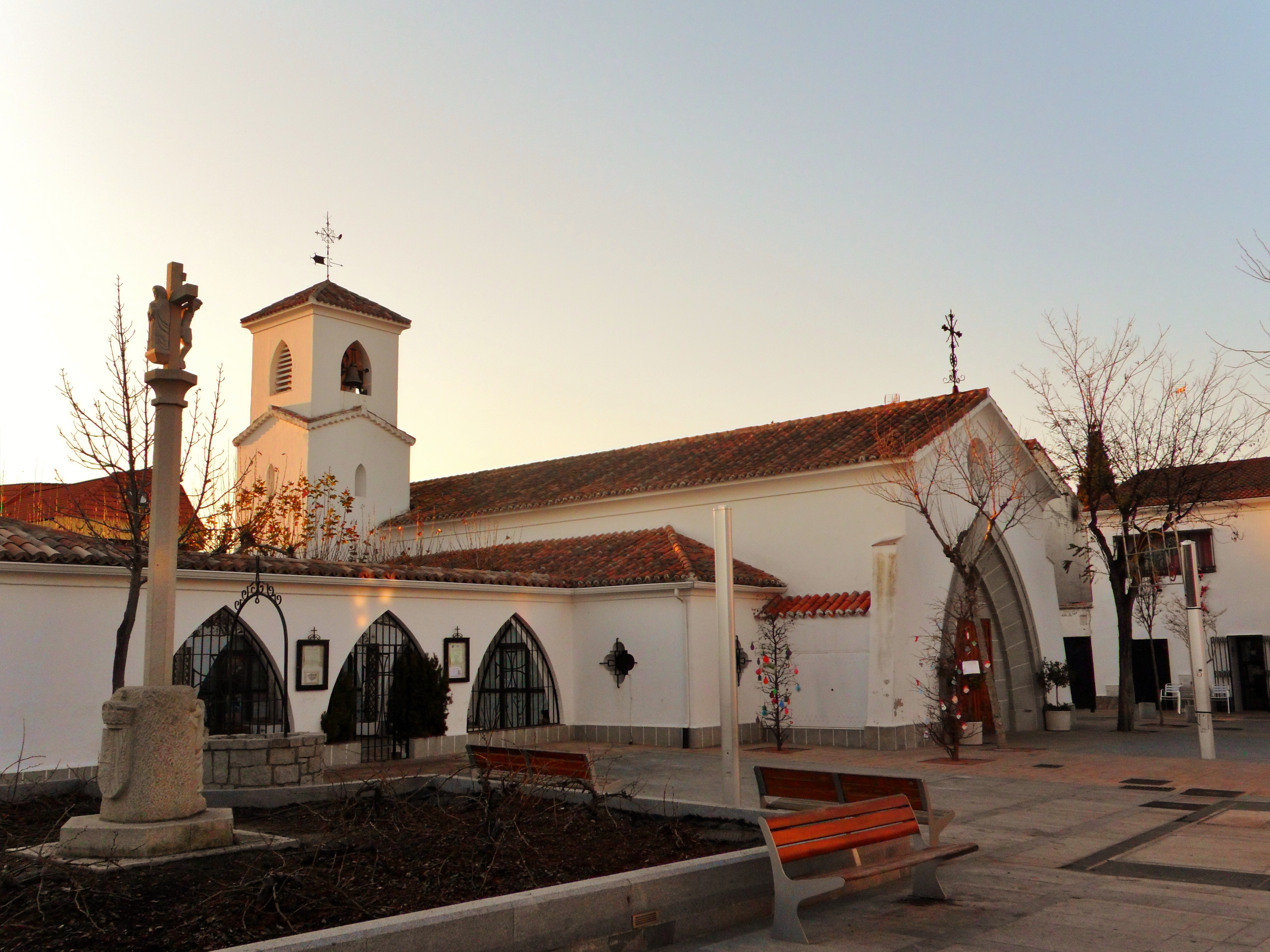 Church in Villanueva del Pardillo.